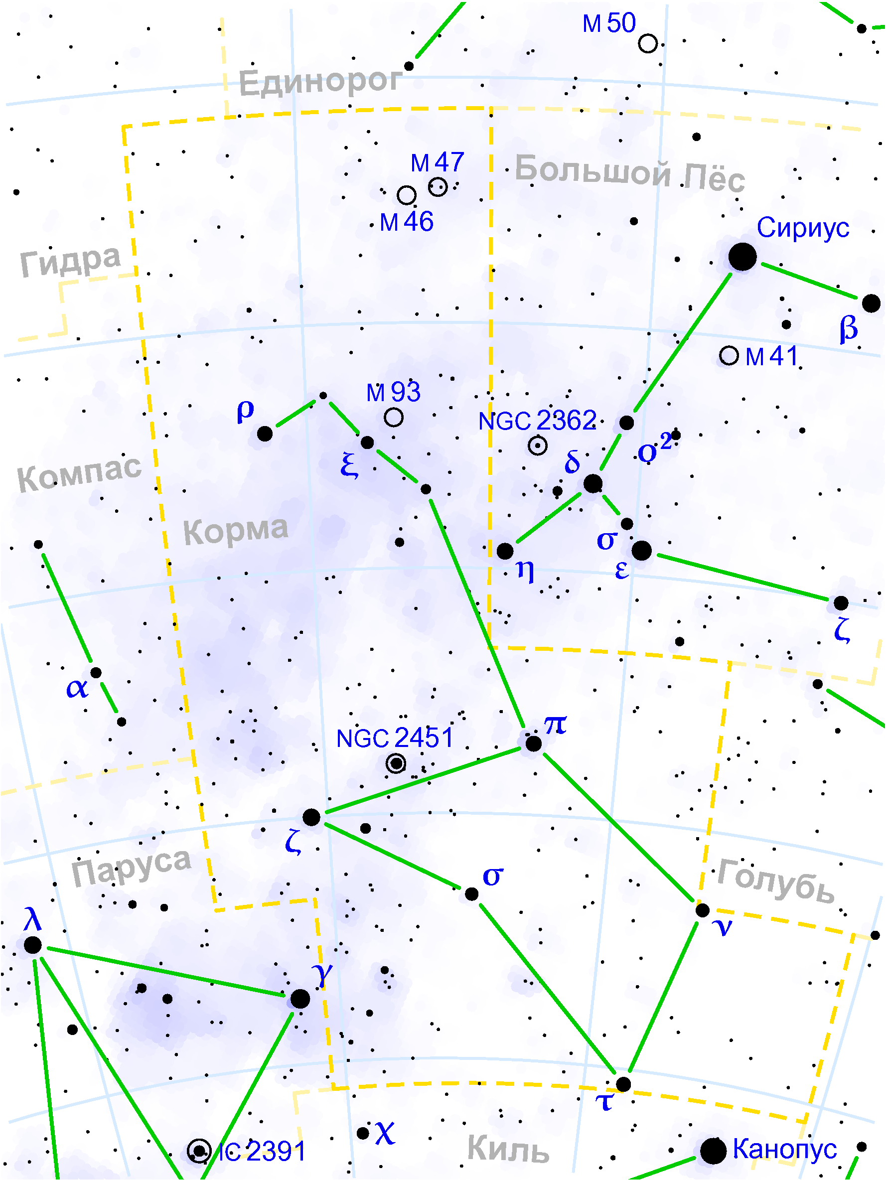 Puppis constellation map in Russian